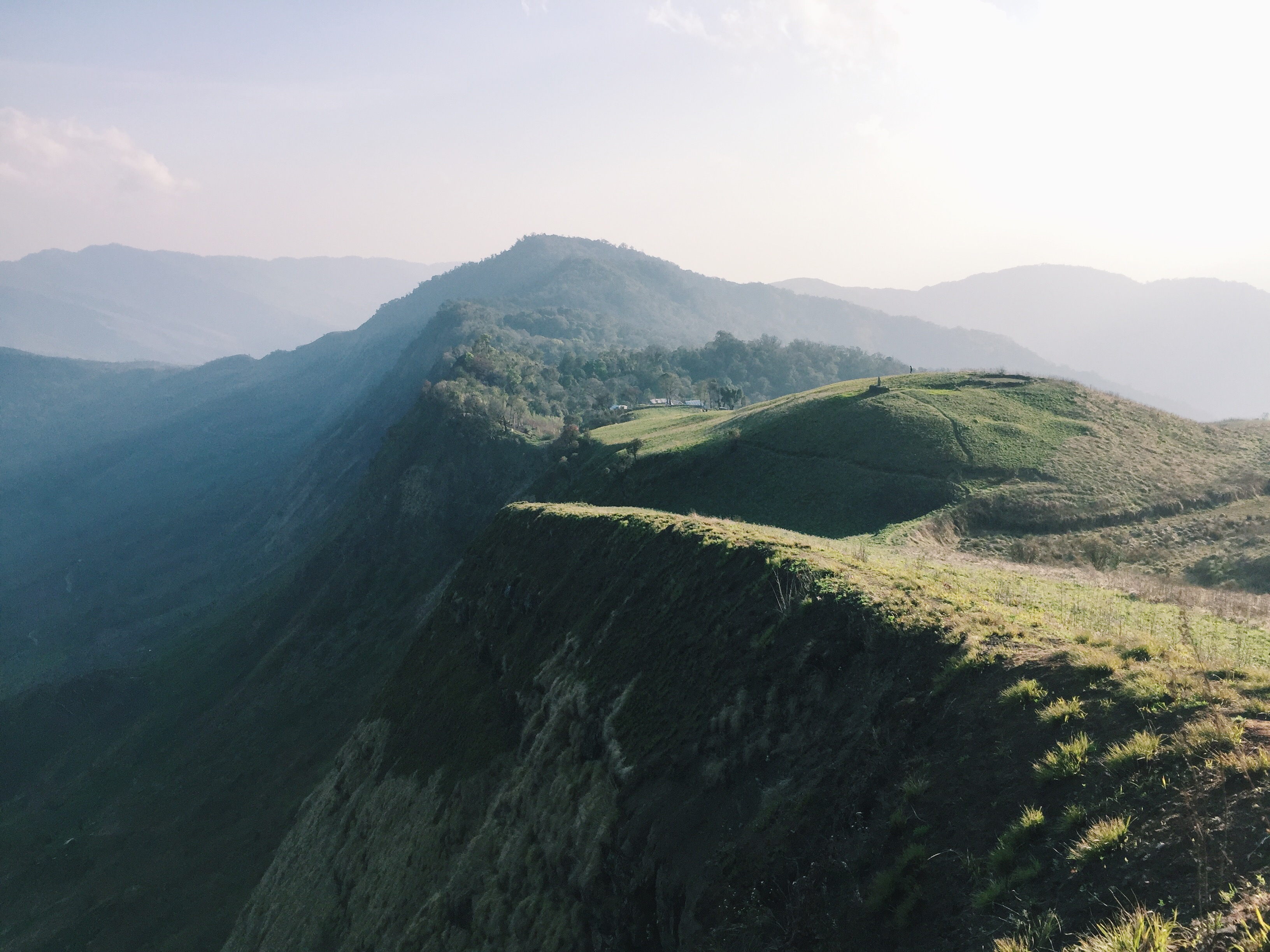 Nature never cease to amaze you. ❤️️ It makes us Happier, healthier and definitely richer in Experience. This picture is taken in Tiny valley of Kapamodzu, Phek District, Nagaland. North east Region of India.